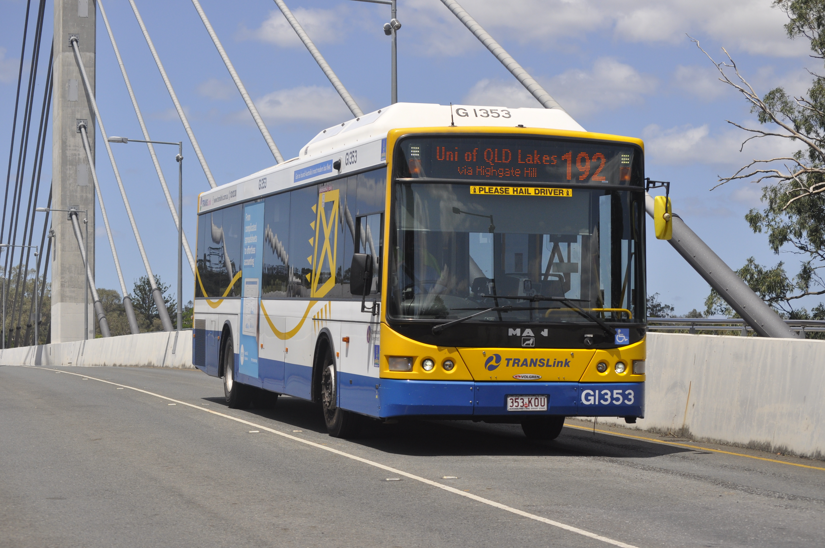 MAN 18.310 CNG G1353 arriving at the University of Queensland